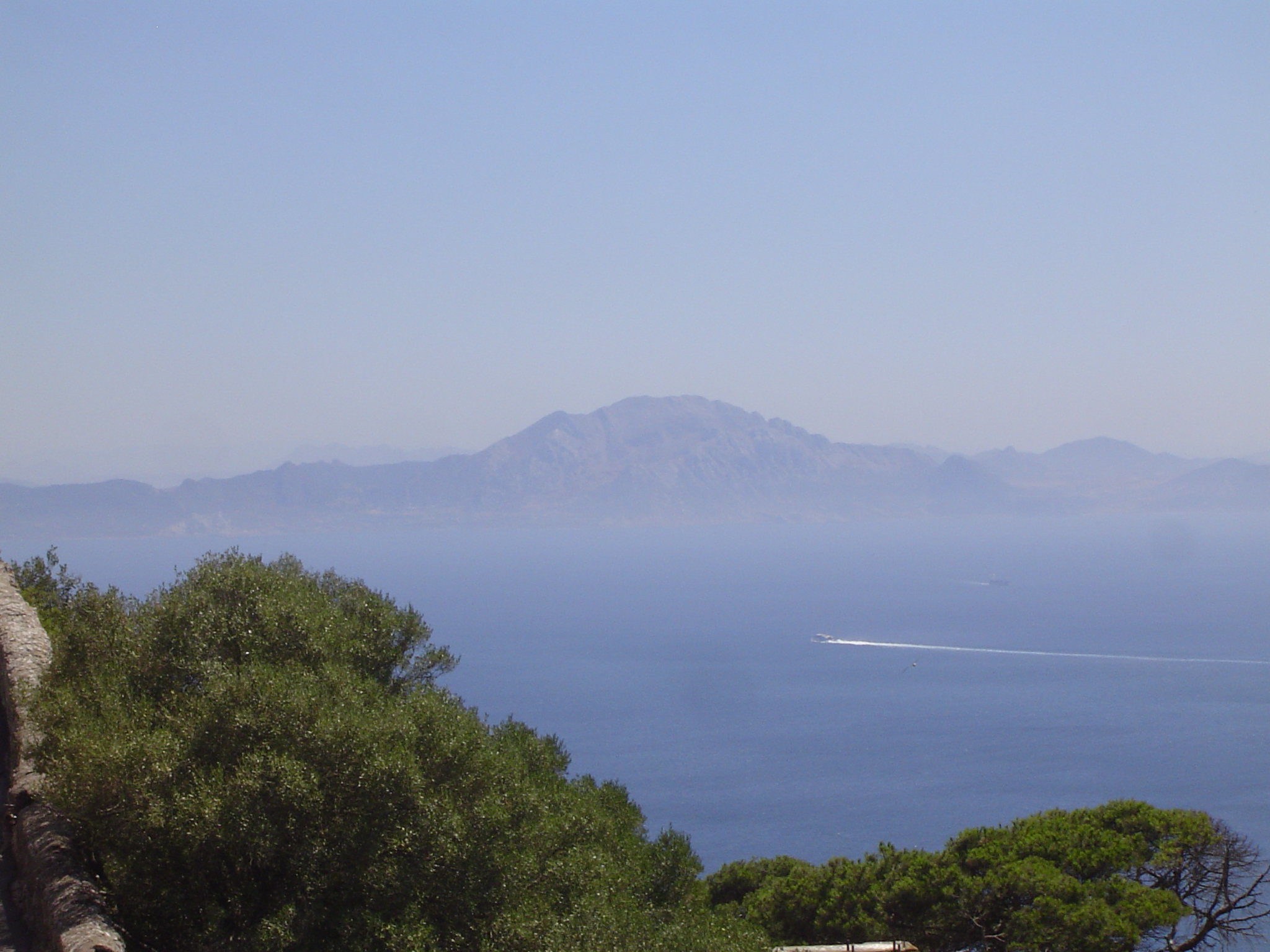 The Strait of Gibraltar from atop "The Rock" in Gibraltar. The Rif Mountains of Morocco can be seen in the background.